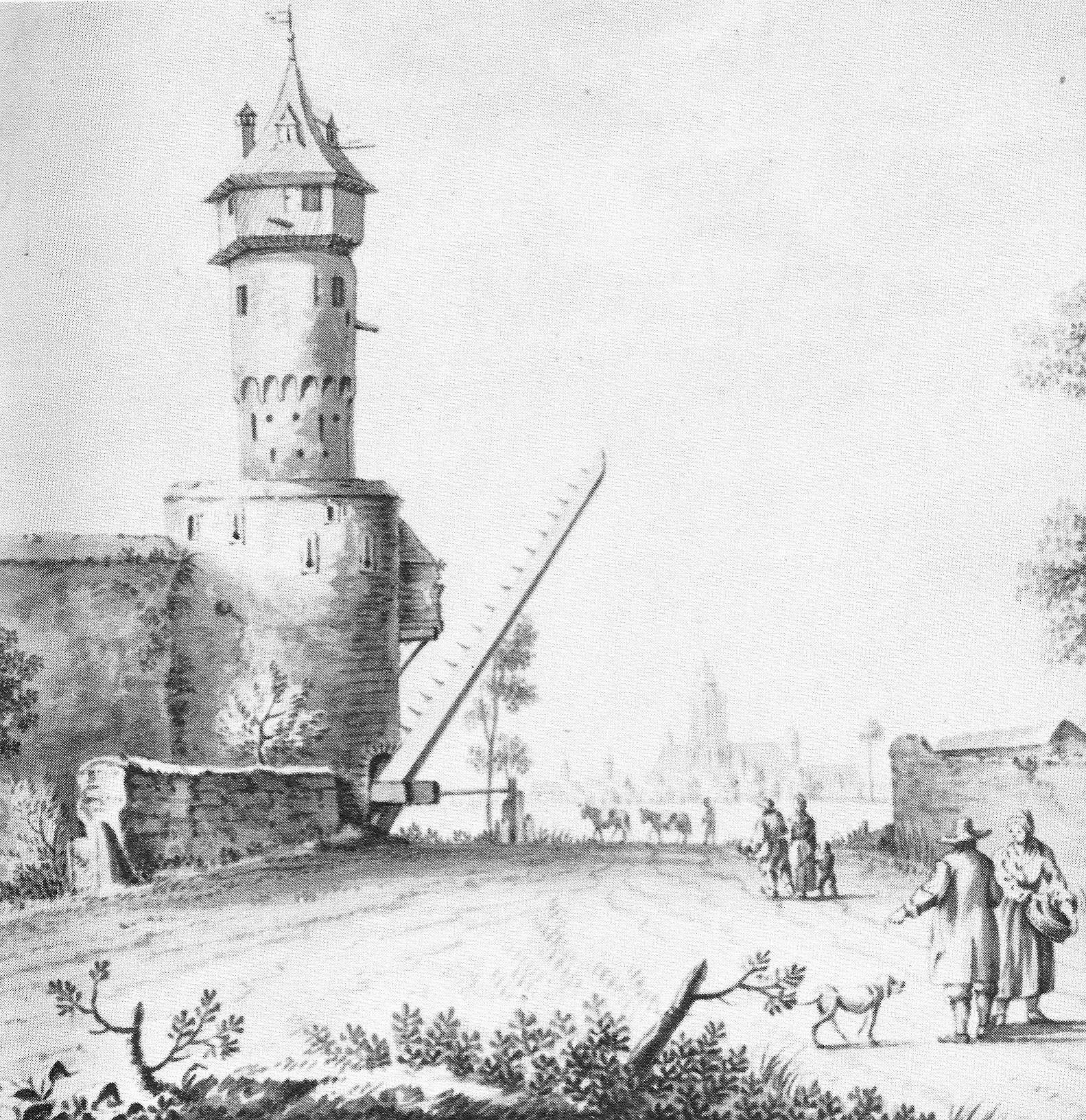 Frankfurt/M., Germany: Watchtower Galgenwarte in the year 1775. Black-and-white print of a painting by Johann Kaspar Zehender